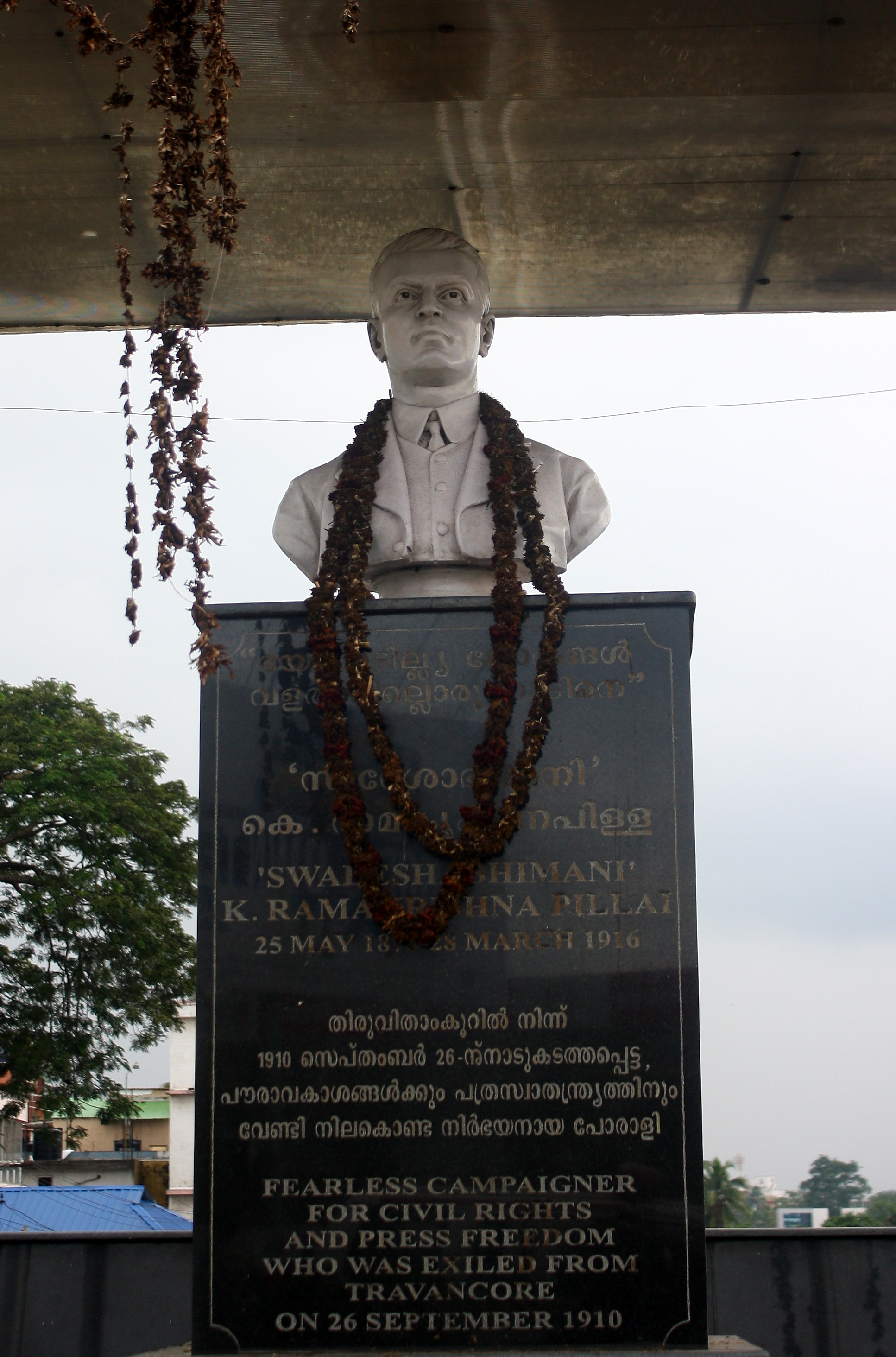 Bust of the civil rights activist Swadeshabhimani Ramakrishna Pillai in Thiruvananthapuram. The bust was originally unveiled by Dr. Rajendra Prasad, the president of India in the presence of E. M. S. Namboodiripad, Chief Minister of Kerala on 13 August 1957. Currently the bust is located in Palayam and in this position it was unveiled by V. S. Achuthanandan, Chief Minister of Kerala on 26 Sept., 2009.